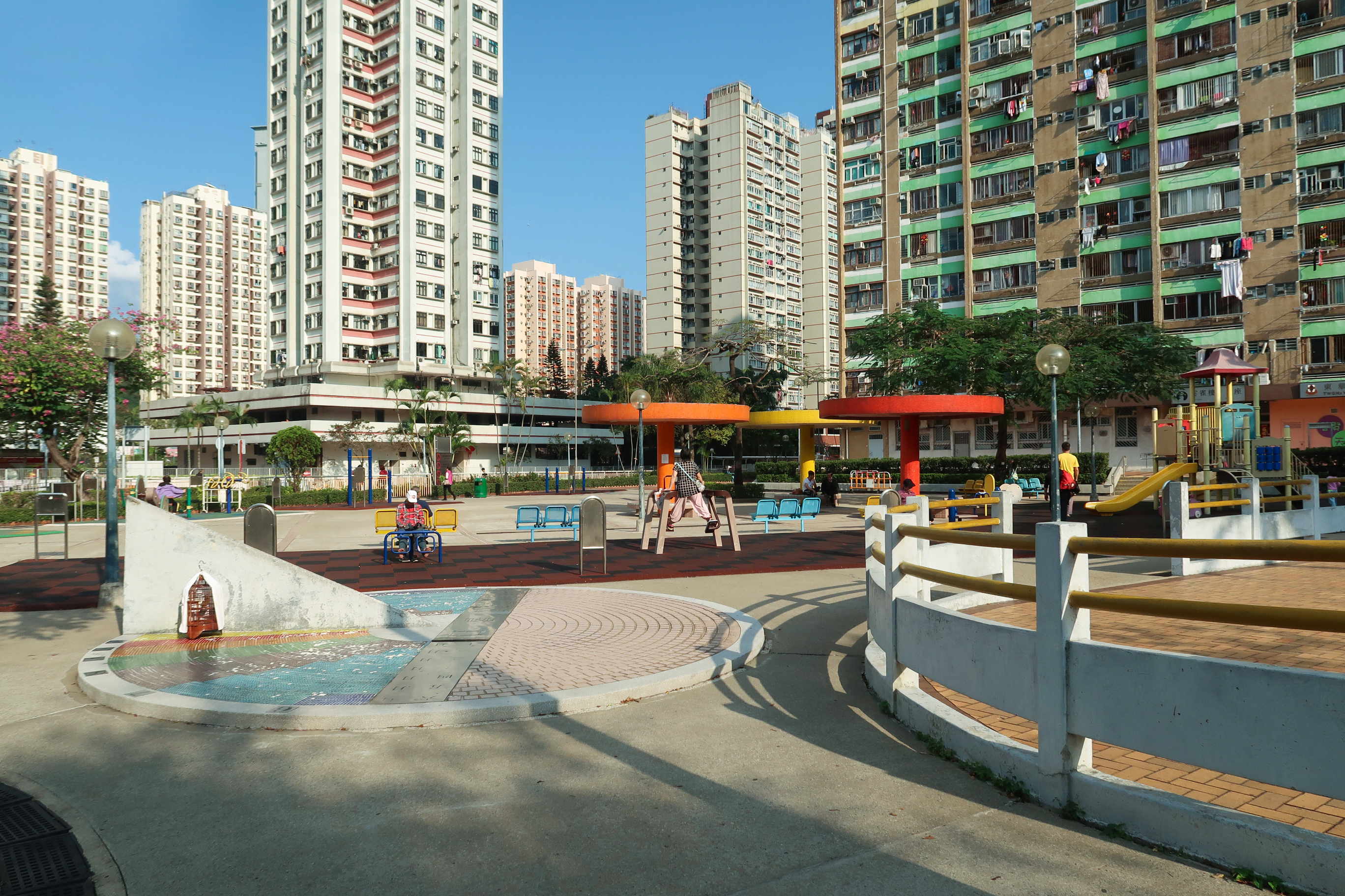 Children Play Area in Sha Kok Estate